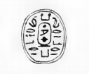 Picture of a scarab of a pharaoh Meribre, believed by Petrie to be Meribre Khety of the 9th-10th dynasty.